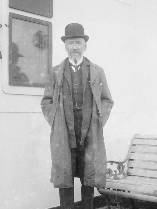 Sir Horace Curzon Plunkett arriving in New York City on the Adriatic from England on December 2, 1915